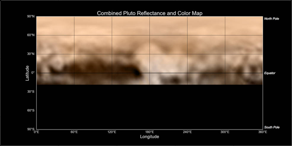 Original caption: This map of Pluto, created from images taken from June 27-July 3, 2015, by the Long Range Reconnaissance Imager (LORRI) on New Horizons, was combined with lower-resolution color data from the spacecraft's Ralph instrument. The center of the map corresponds to the side of Pluto that will be seen close-up during New Horizons' July 14 flyby. This map gives mission scientists an important tool to decipher the complex and intriguing pattern of bright and dark markings on Pluto's surface. Features from all sides of Pluto can now be seen at a glance and from a consistent perspective, making it much easier to compare their shapes and sizes. The elongated dark area informally known as "the whale," along the equator on the left side of the map, is one of the darkest regions visible to New Horizons. It measures some 1,860 miles (3,000 kilometers) in length. Directly to the right of the whale’s "snout" is the brightest region visible on the planet, which is roughly 990 miles (1,600 kilometers) across. This may be a region where relatively fresh deposits of frost—perhaps including frozen methane, nitrogen and/or carbon monoxide—form a bright coating.